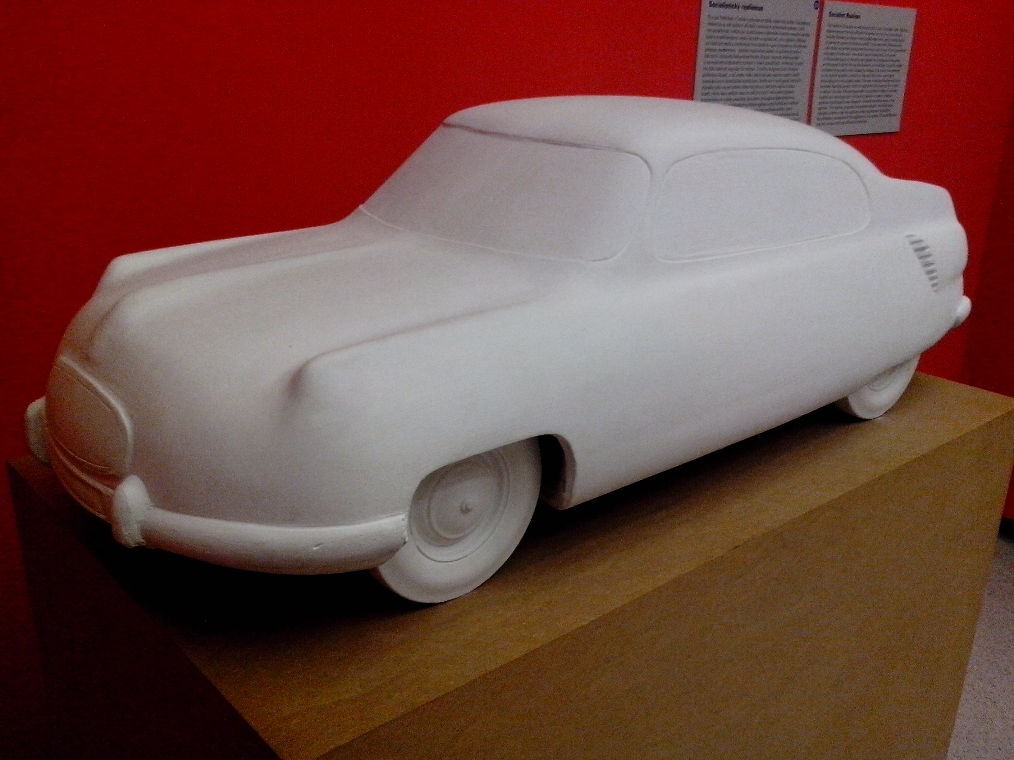 1954 1:5 model of Tatra 603 by Zdeněk Kovář.